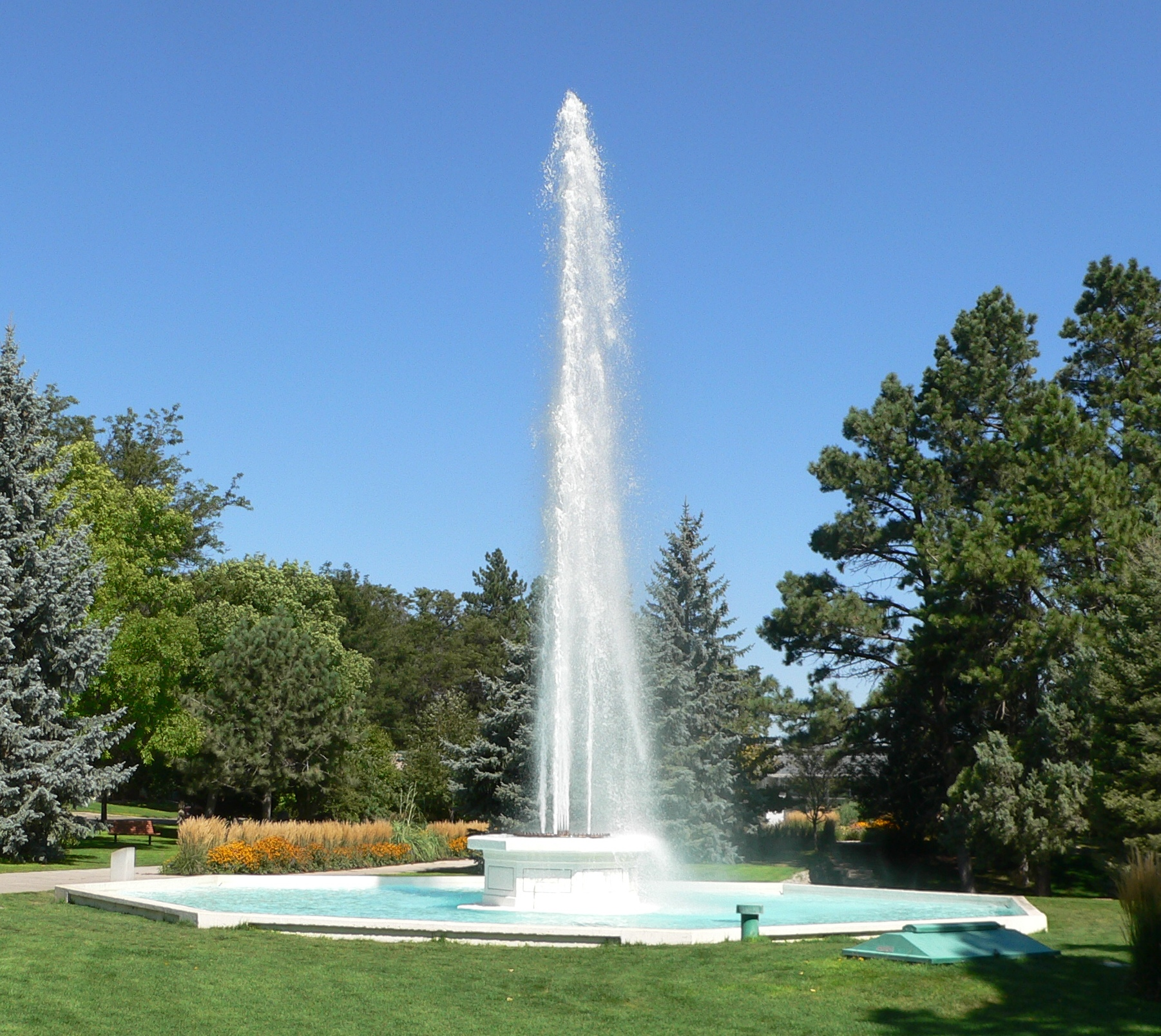 Central Park Fountain in Central Park in Alliance, Nebraska. The fountain was built in 1935, and is listed in the National Register of Historic Places.